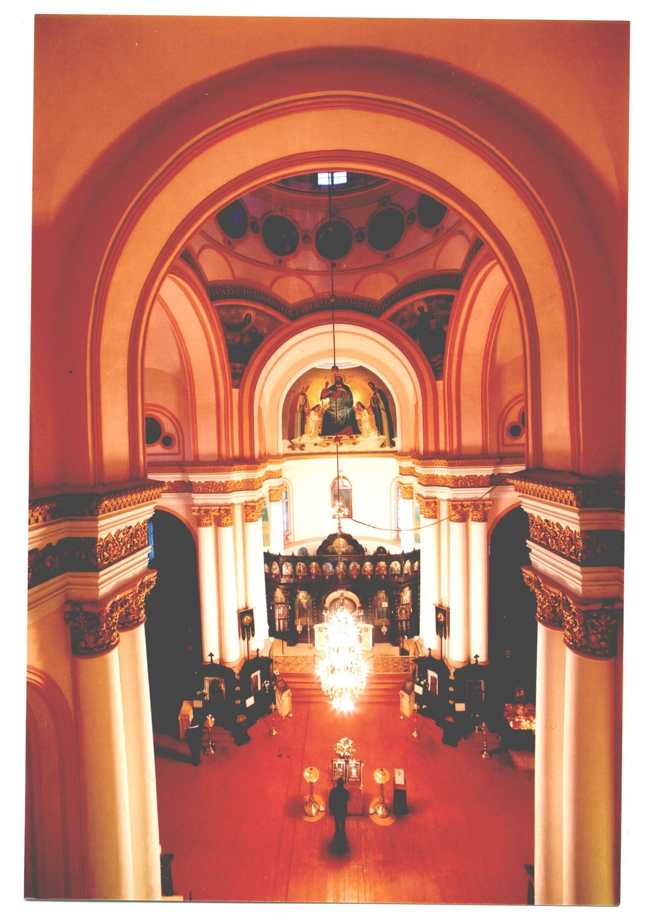 Gatchina (Russia)